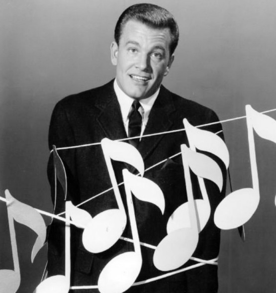 Photo of Wink (Win) Martindale from the game show What's This Song?